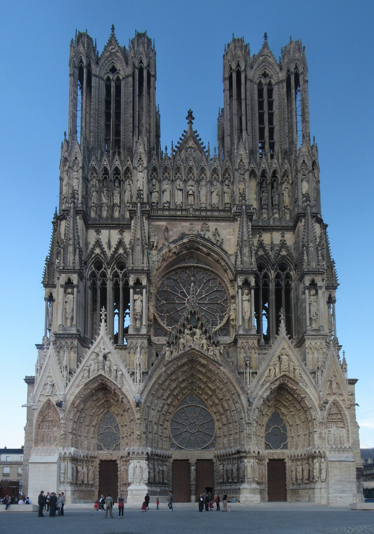 Reims Cathedral